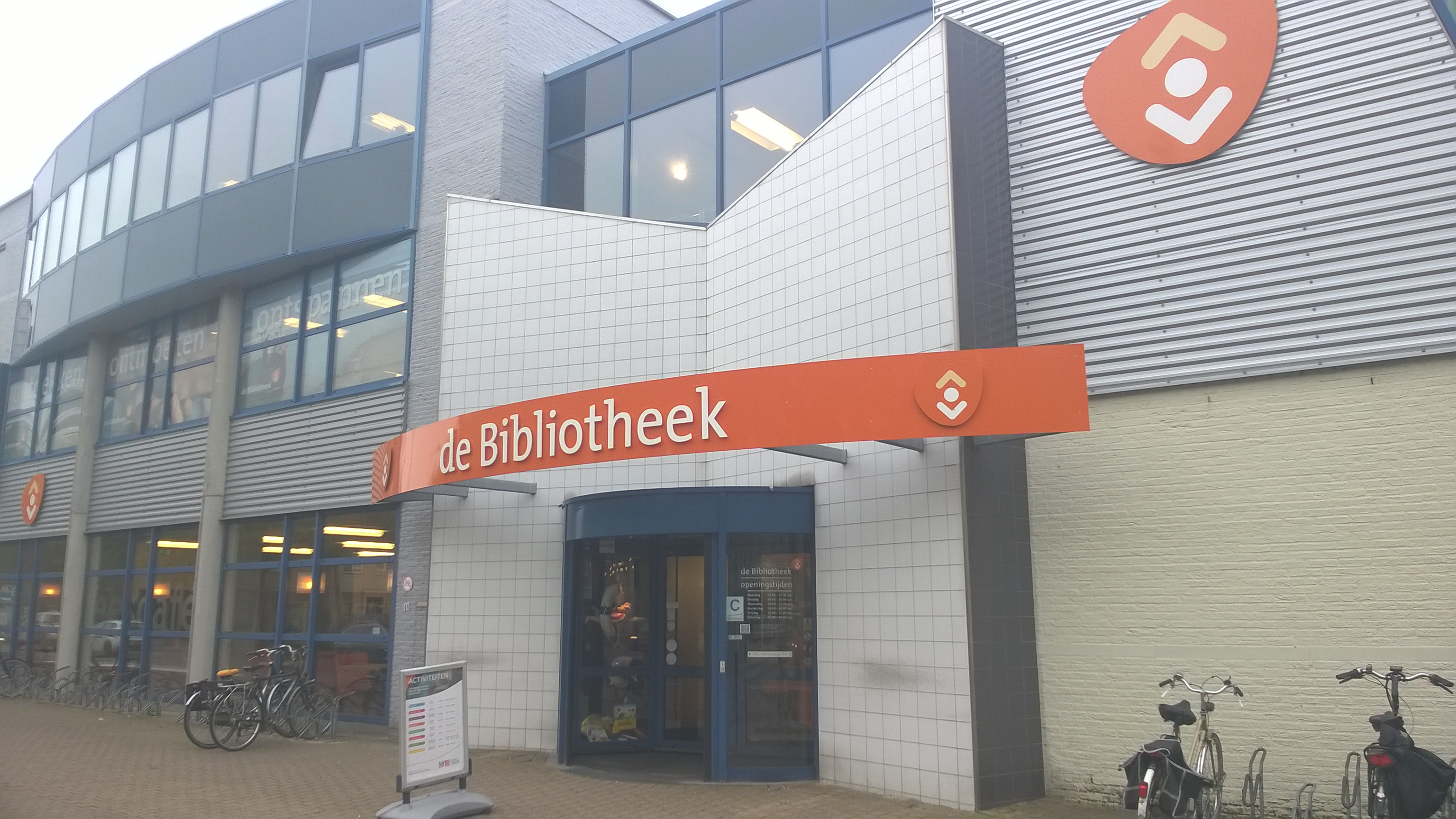 A large public library in the Frisian city of Heerenveen.